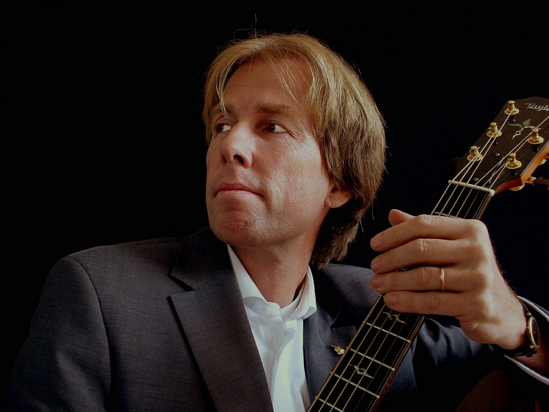 Eltjo Haselhoff, Dutch guitarist and writer